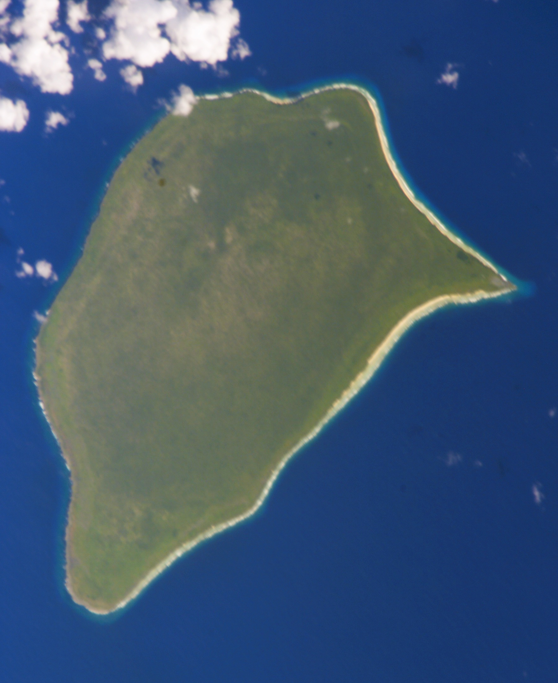 NASA picture of Henderson Island in the Pitcairn Islands ISS Crew Earth Observations: ISS004-E-6793IdentificationMissionISS004 (Expedition 4)RollEFrame6793Country or Geographic NamePITCAIRN ISLANDSFeaturesHENDERSON ISLANDCenter Point Latitude-24.5° NCenter Point Longitude-128.5° ECameraCamera Tilt22°Camera Focal Length800 mmCameraKodak DCS760C Electronic Still CameraFilm3060 x 2036 pixel CCD, RGBG array.QualityPercentage of Cloud Cover0-10%Nadir What is Nadir?Date2002-01-23Time17:50:44Nadir Point Latitude-25.9° NNadir Point Longitude-129.0° ENadir to Photo Center DirectionNorthSun Azimuth90°Spacecraft Altitude216 nautical miles (400 km)Sun Elevation Angle49°Orbit Number2152